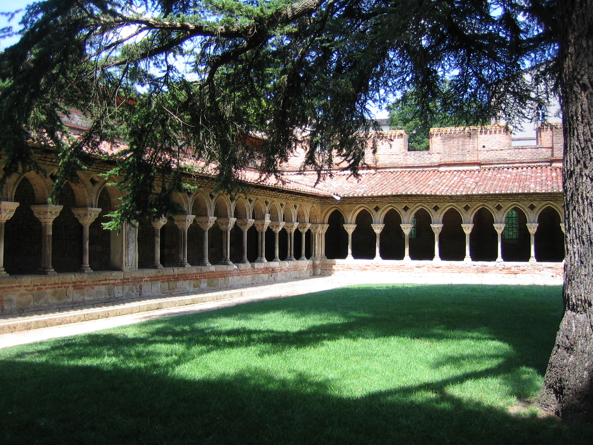 Moissac, Cloisters of Moissac Abbey